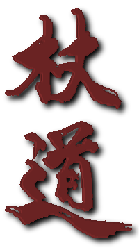 "JODO" (the way of the stick) in Kanji (Japanese character)